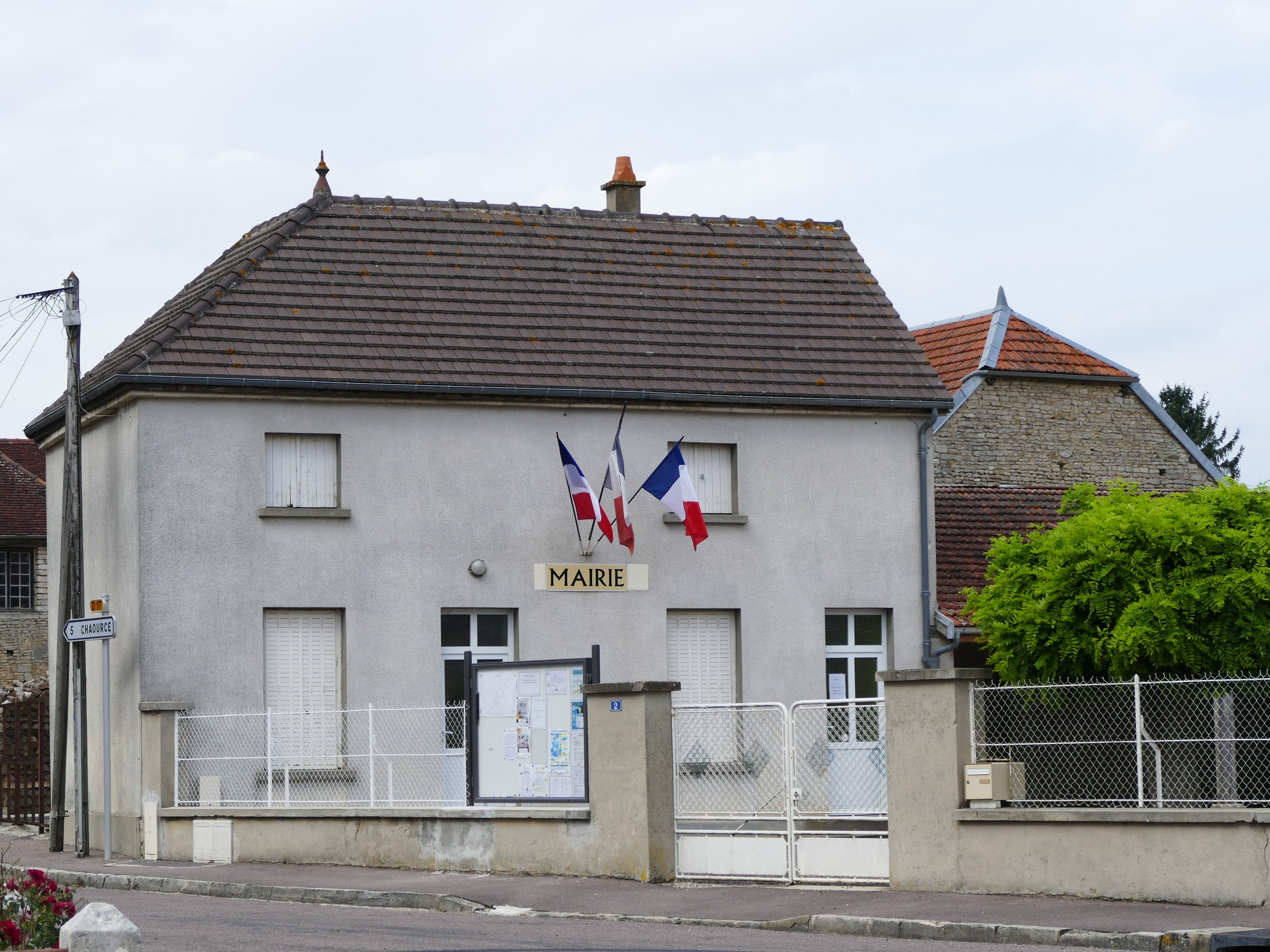 The city hall in Pargues (Aube, Champagne-Ardenne, France).